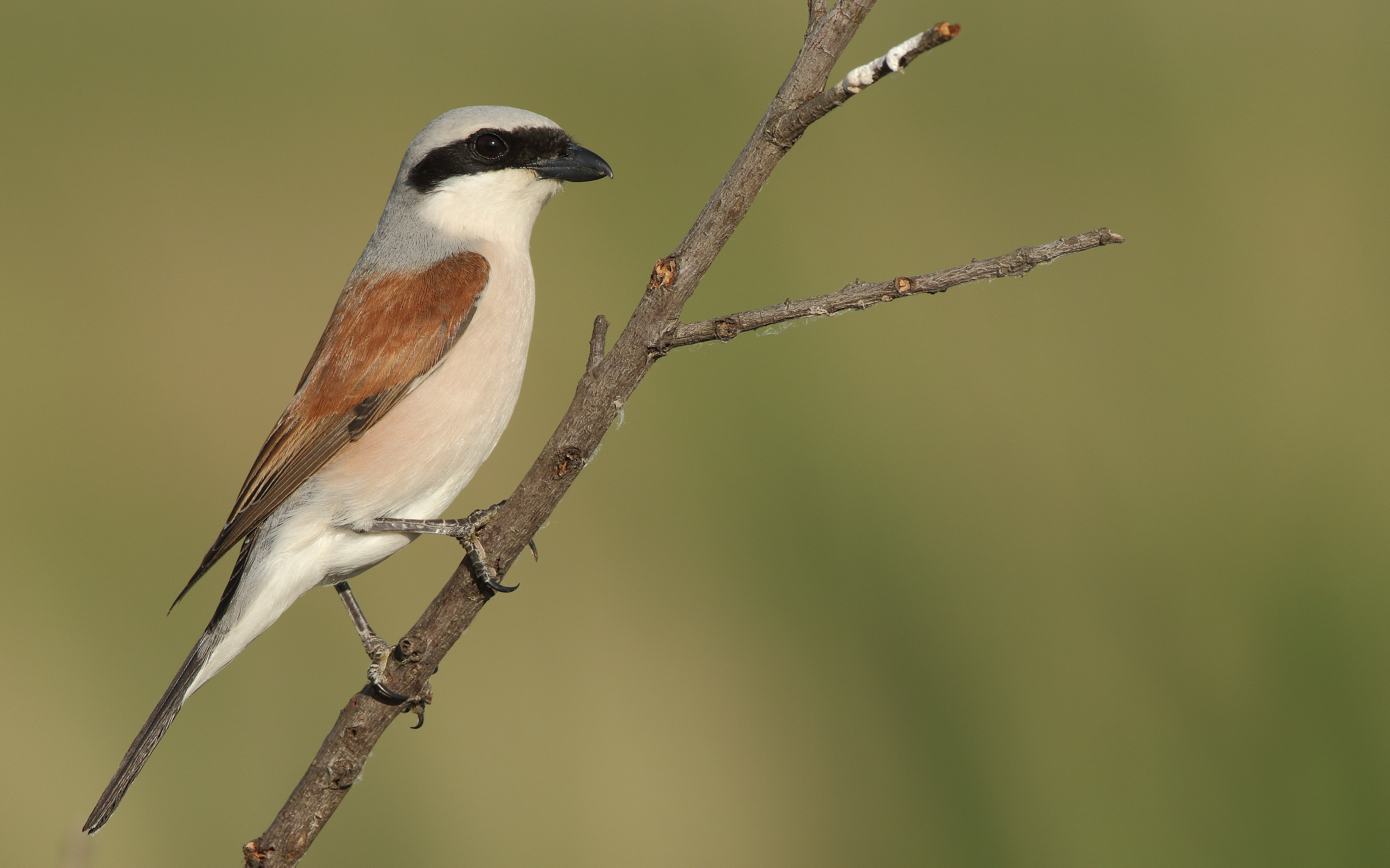 A red-backed shrike at lake Kerkini-Beles Natura 2000 site